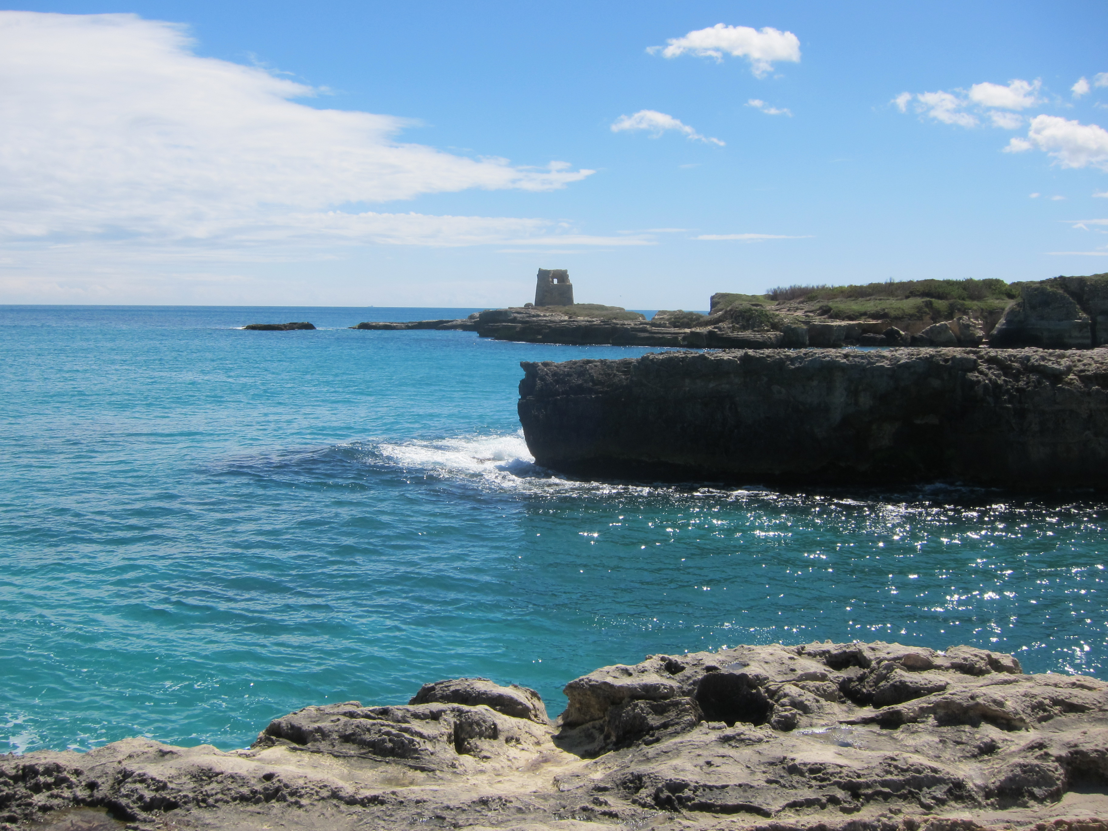 The Adriatic Sea @ Torre Pozzelle